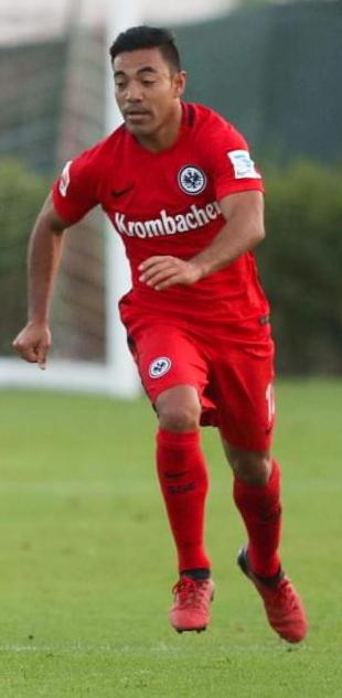 Marco Fabián